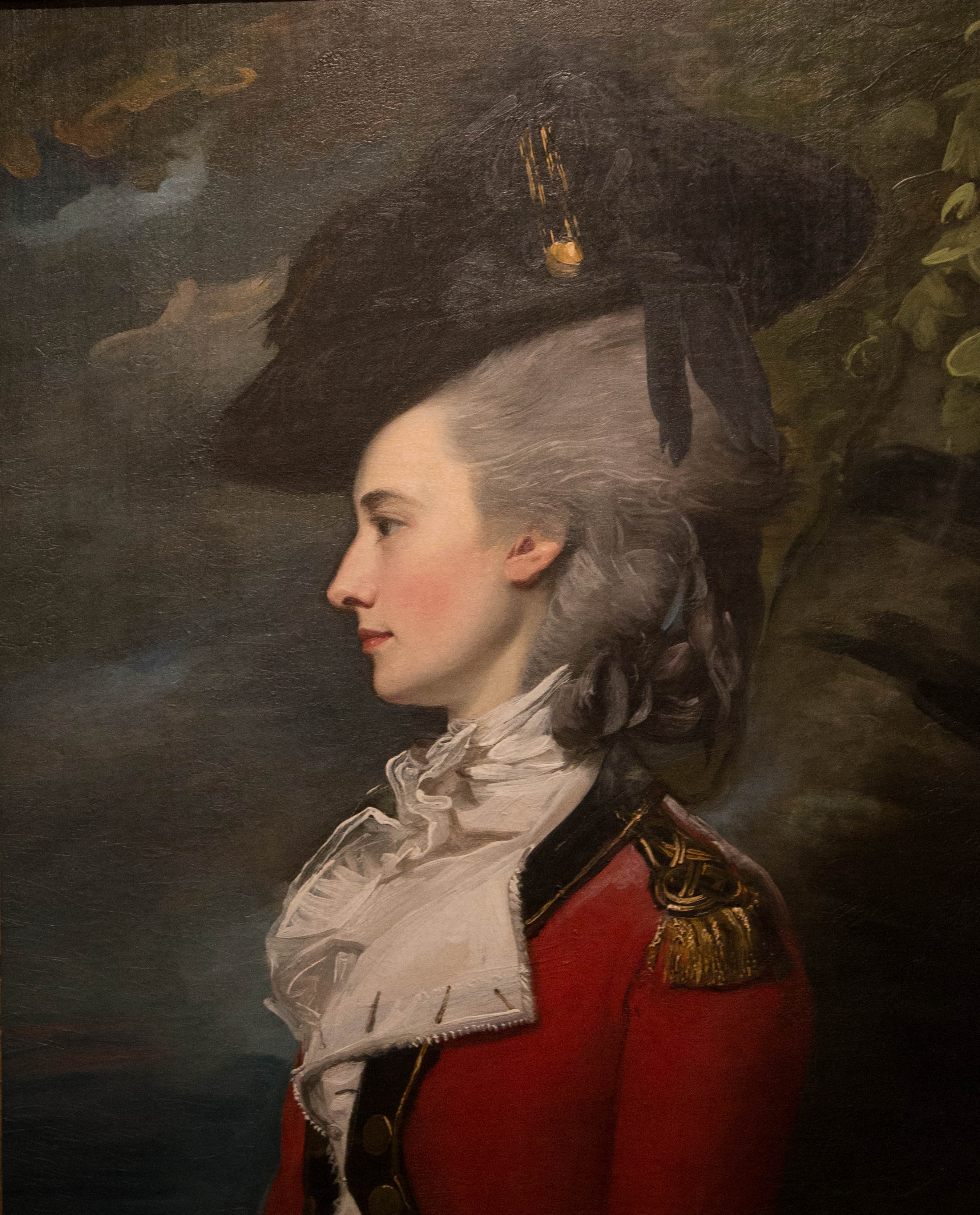 Created 1778 in England, hangs in The Gallery of the diplomatic reception rooms located within the Harry S. Truman building of the US Department of State in Washington, DC.